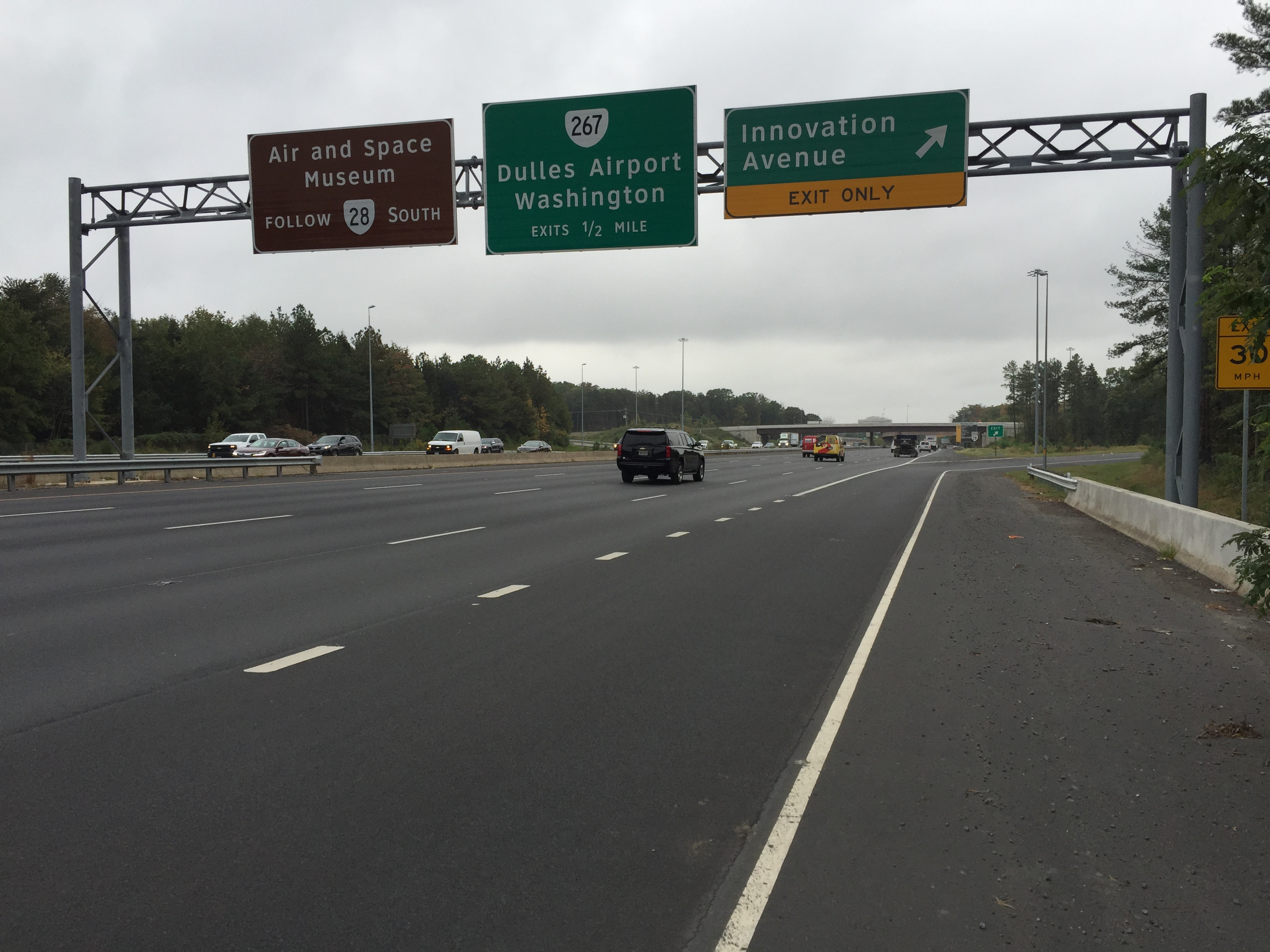 View south along Virginia State Route 28 (Sully Road) at the exit for Innovation Avenue in Dulles, Loudoun County, Virginia